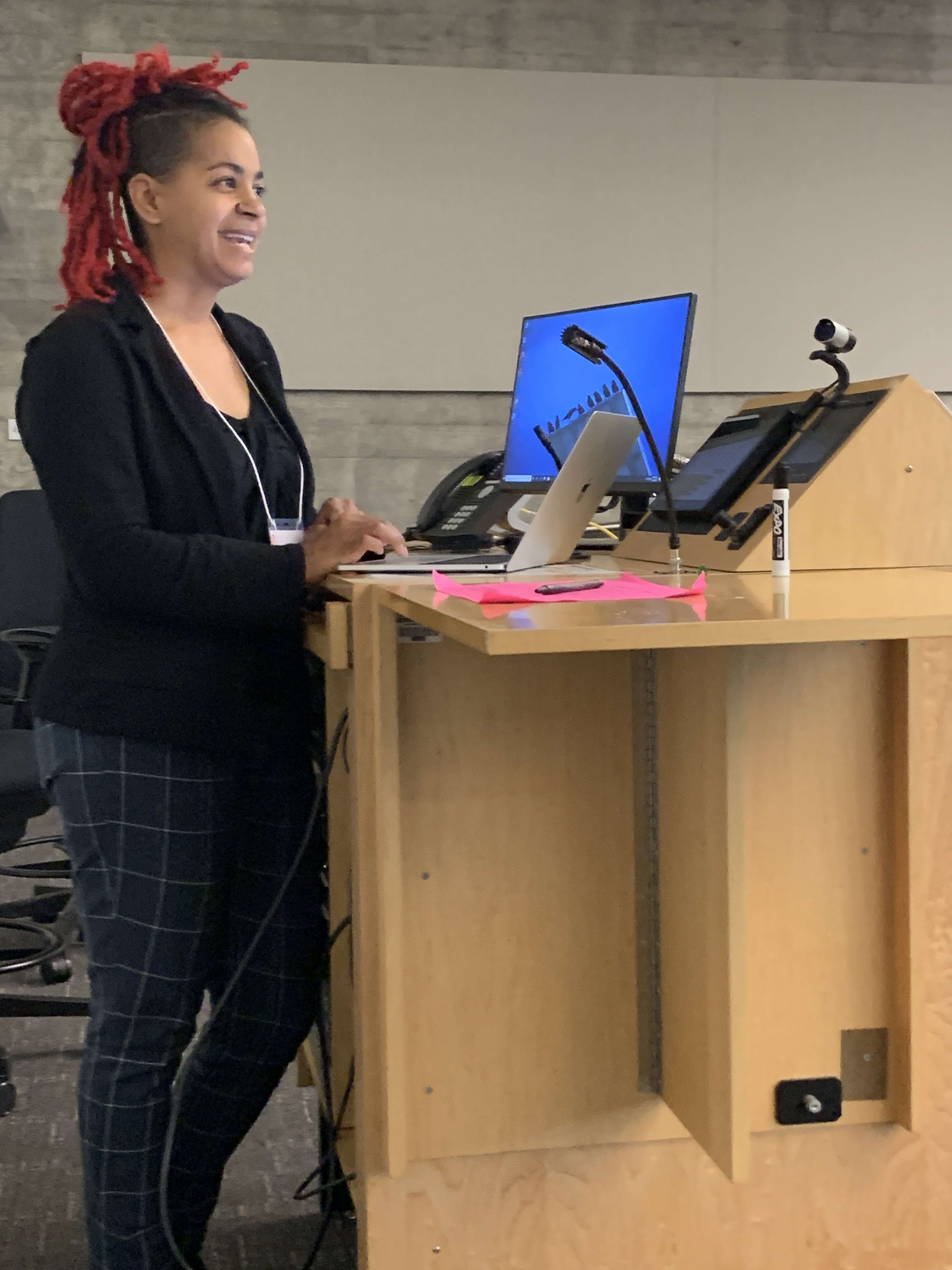 Photograph of Aisha Sabatini Sloan on Sept 21, 2019 at &NOW Conference in Bothell Washington